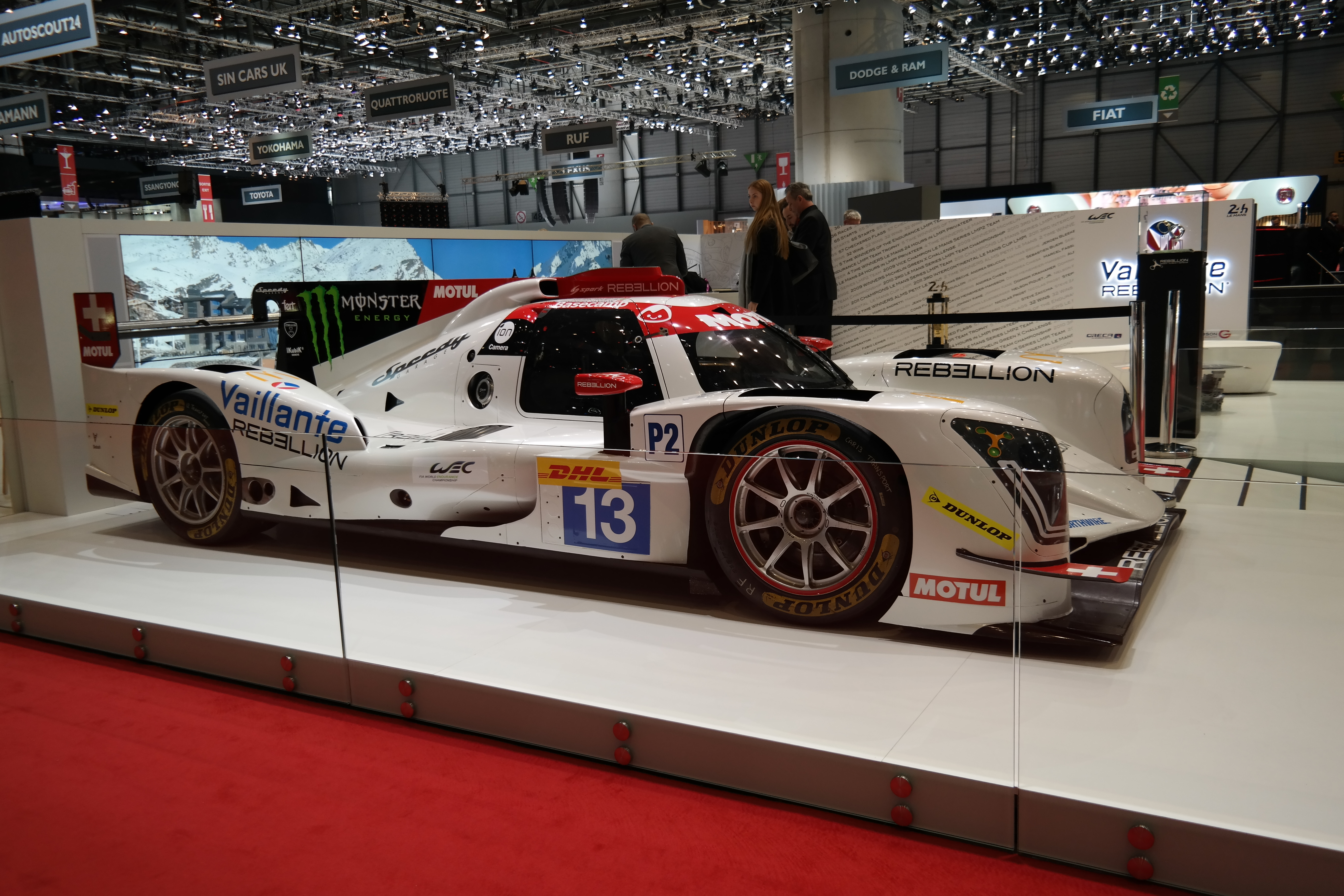 Geneva Motor Show 2017 (photo taken on the first press day)